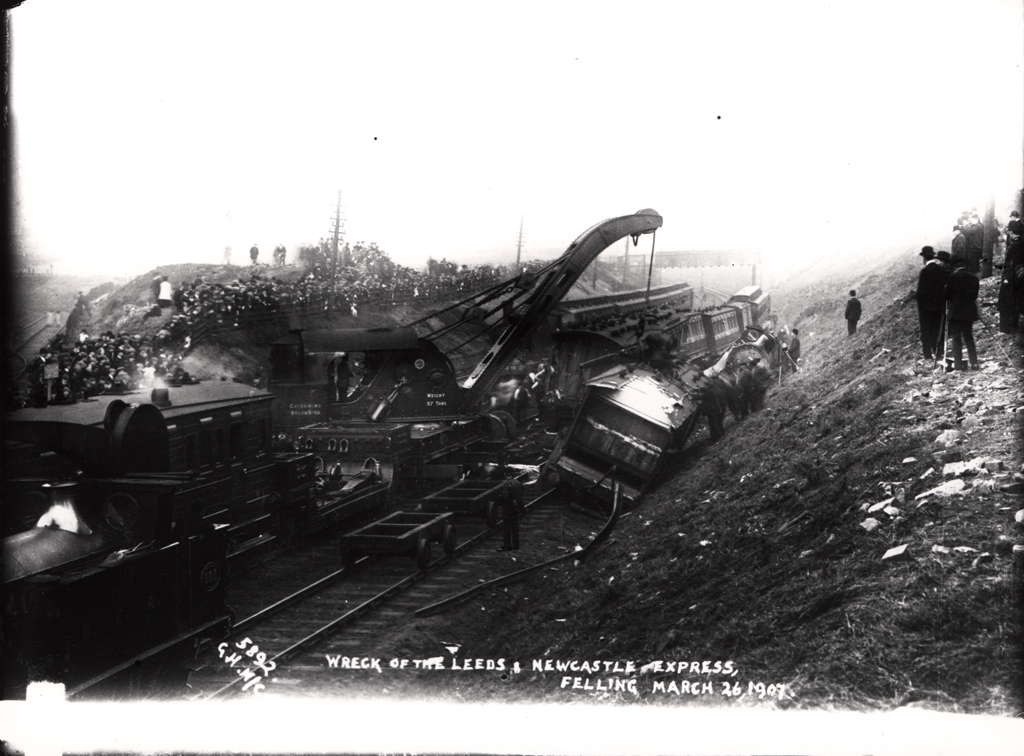 Aftermath and clean-up of a train derailment near Felling station on 26 March 1907.